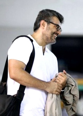 Actor Ajith Kumar on the sets of the film English Vinglish.